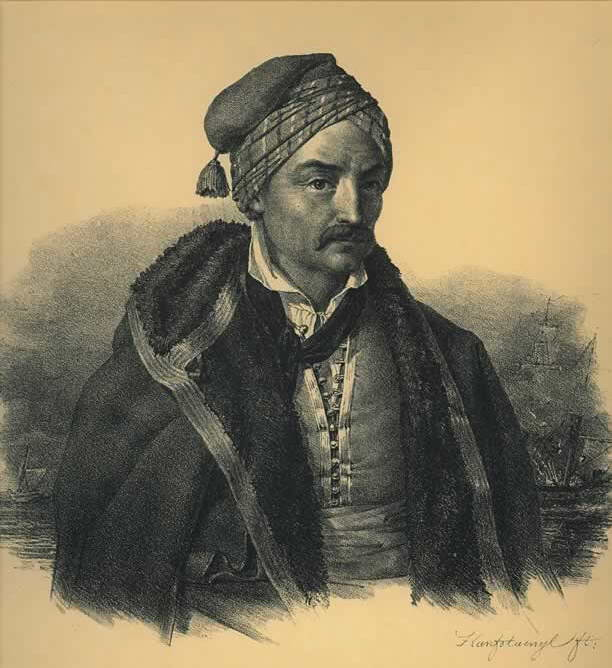 Konstantinos Kanaris (1793 or 1795 – 2 September 1877). Greek admiral, freedom fighter and politician. Lithography by Karl Krazeisen (1794-1878) from "Bildnisse ausgezeichneter Griechen und Philhellenen nebst einigen Ansichten und Trachten. Nach der Natur gezeichnet und herausgegeben von Karl Krazeisen. Munchen 1831".